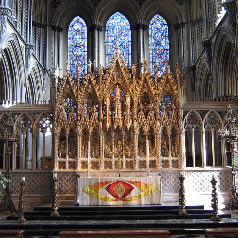 The High Altar, Ely Cathedral. Taken by gwendraith 2006